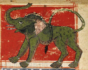 lion of 14 auspicious dreams in Jainism